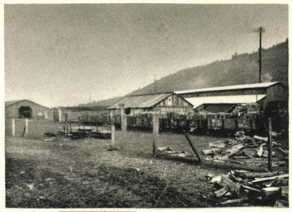 Kusnica